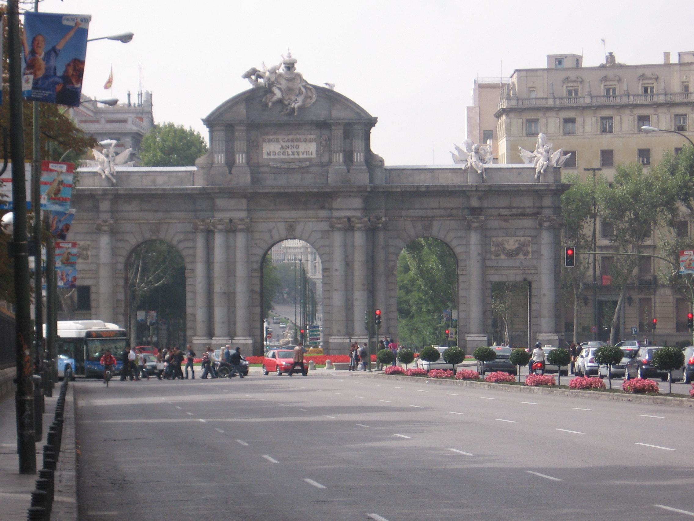 Madrid: Calle de Alcalá.